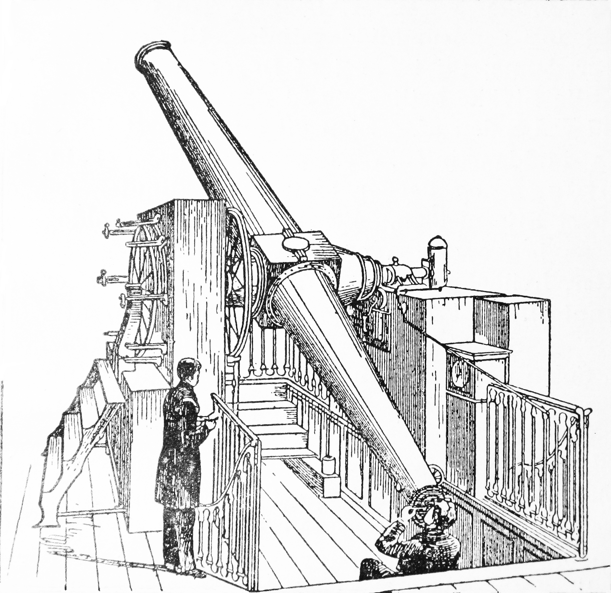 "Tidens naturlære" 1903 af Poul la Cour, Fig. 5. Meridianinstrumentet. Bogen findes digitalt på Tidens Naturlære "Tidens naturlære" (Nature of time) 1903 by Poul la Cour, Ill. Fig. 5. The Meridianinstrument. The book is digitized at Tidens Naturlære